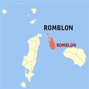 Map of Romblon showing the location of the Municipality of Romblon